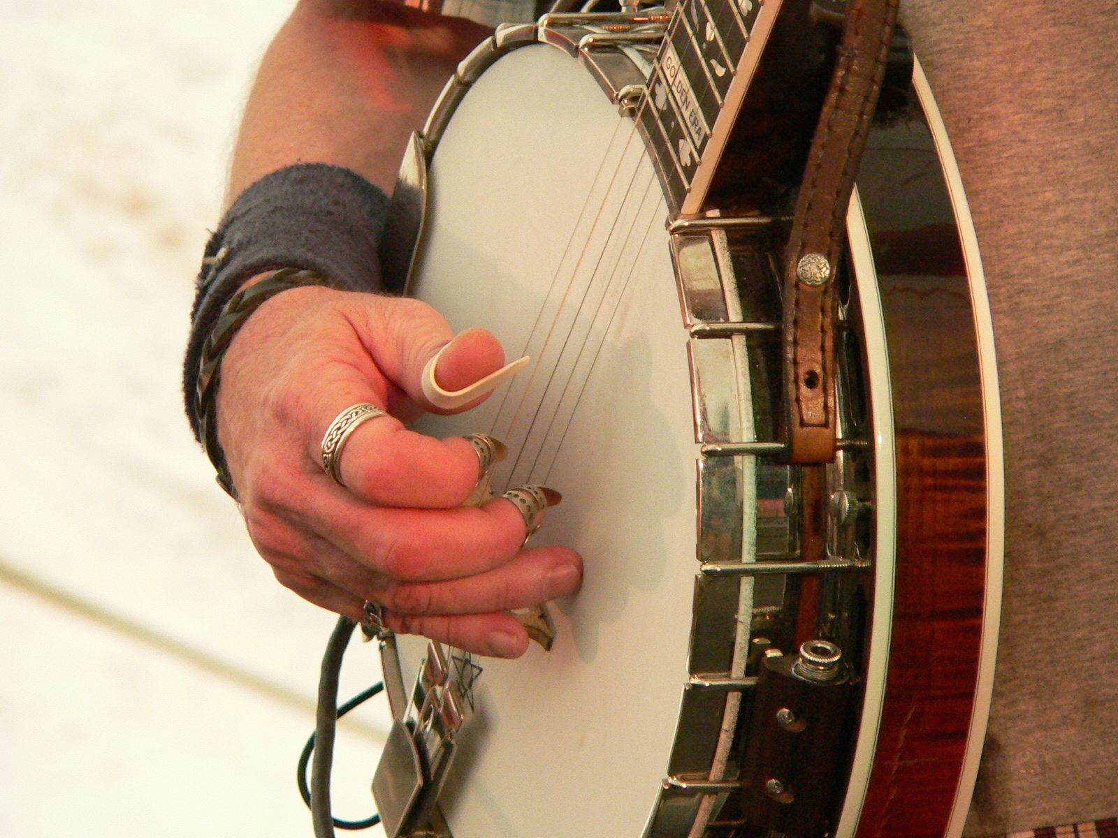 Don Wayne Reno playing a banjo with fingerpicks on his thumb, index and middle fingers. Photographed at Brent Pelham Mayfest in May 2006.